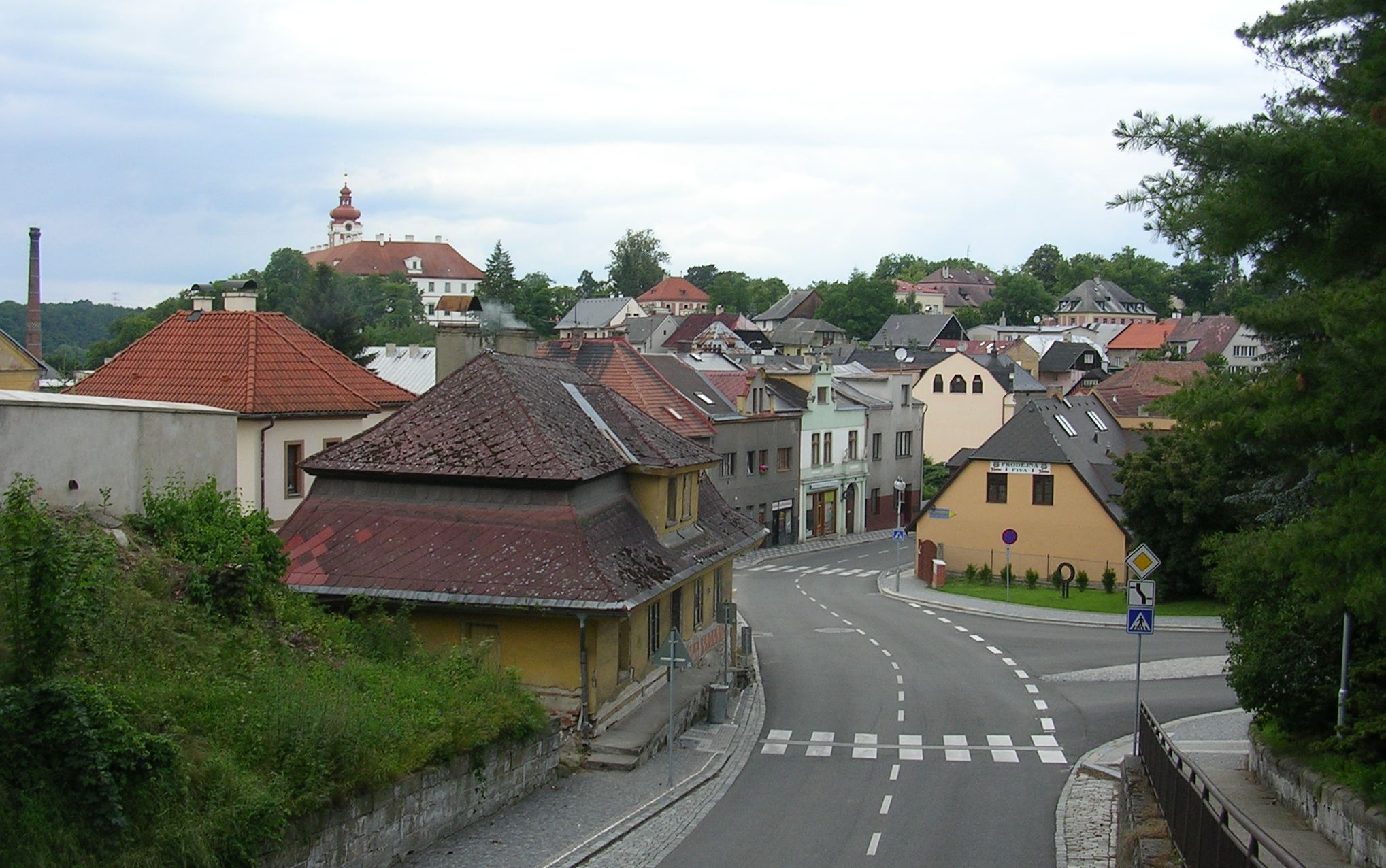 Mnichovo Hradiště, Mladá Boleslav District, Central Bohemian Region, the Czech Republic.